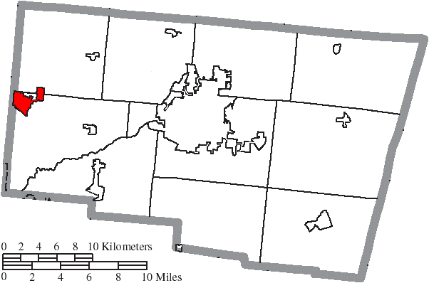 Map of the municipal and township boundaries of Clark County, Ohio, United States, as of the 2000 census, with the location of the city of New Carlisle highlighted. Township borders are shown only in unincorporated areas in order to differentiate incorporated and unincorporated areas more clearly.